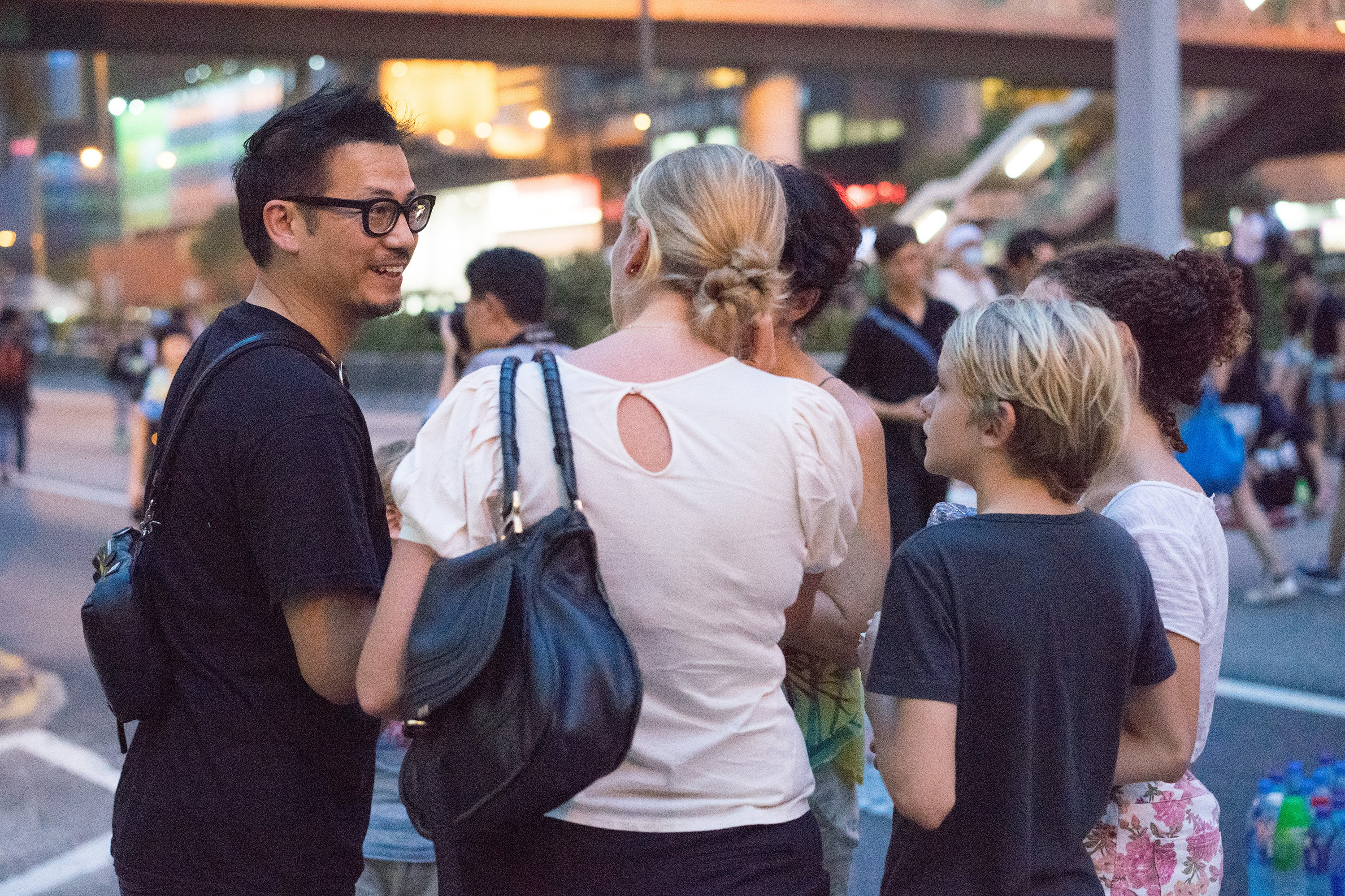 HK930 2014:09:30 18:22:00 Hong Kong artist, Stephen Au, explained the concept of Occupy Central and the students' protest to a foreign family. 香港演員歐錦棠向一個外國家庭介紹佔領中環及這次學生運動的理念。